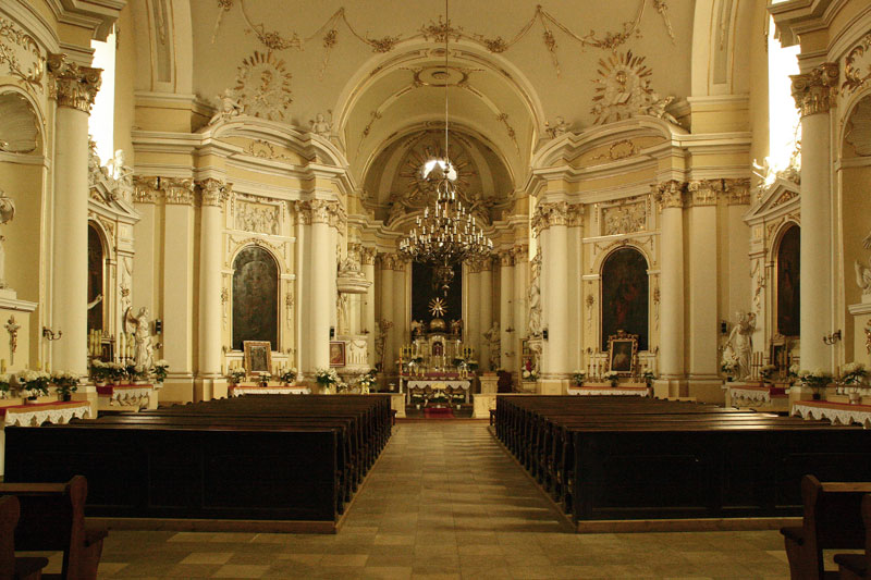 St. Stanislaus church in Rydzyna, Western Poland